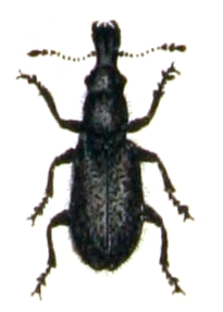 Nemonyx lepturoides, from Calwer's Käferbuch, Table 30, Picture 22. Taxonomy was updated to 2008, using mostly the sites Fauna Europaea and BioLib. Please contact Sarefo if the determination is wrong!